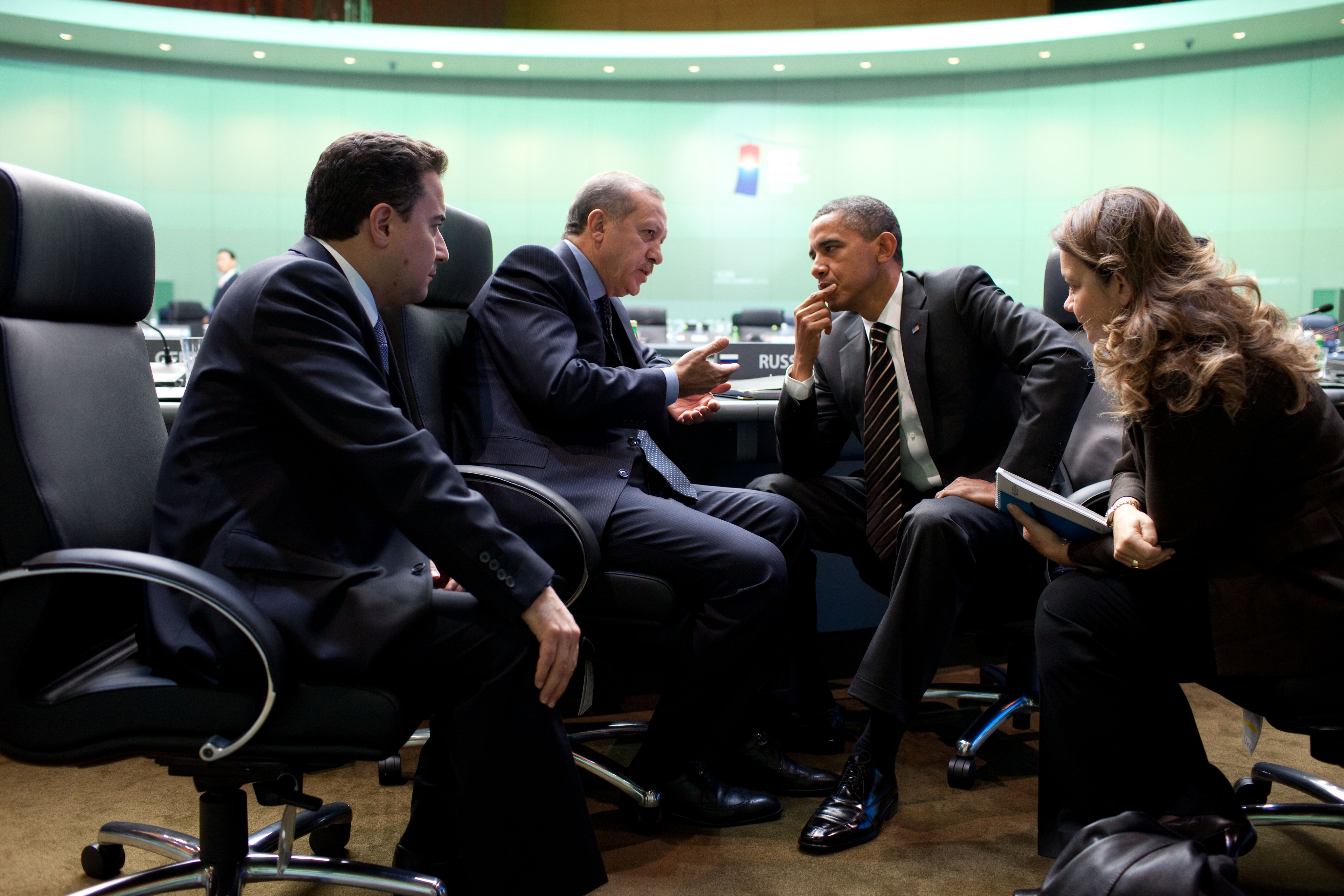 President Barack Obama talks with Turkish Prime Minister Recep Tayyip Erdoğan after the third morning plenary session during the G-20 Summit at the COEX Center in Seoul, South Korea, Nov. 12, 2010. (Official White House Photo by Pete Souza) This official White House photograph is in the public domain from a copyright perspective, so while restrictions such as personality or privacy rights may apply, in general, manipulations are allowed.